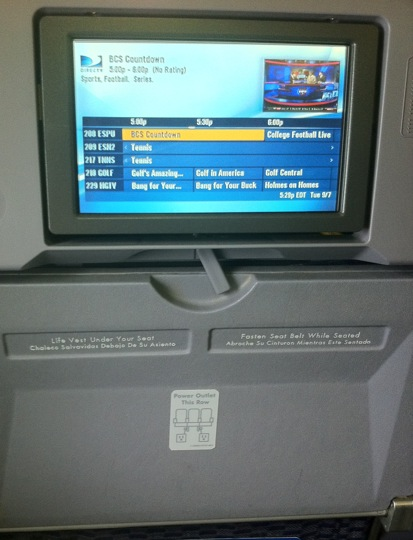 Taken onboard a Boeing 737-800 at IAH awaiting departure to BOS